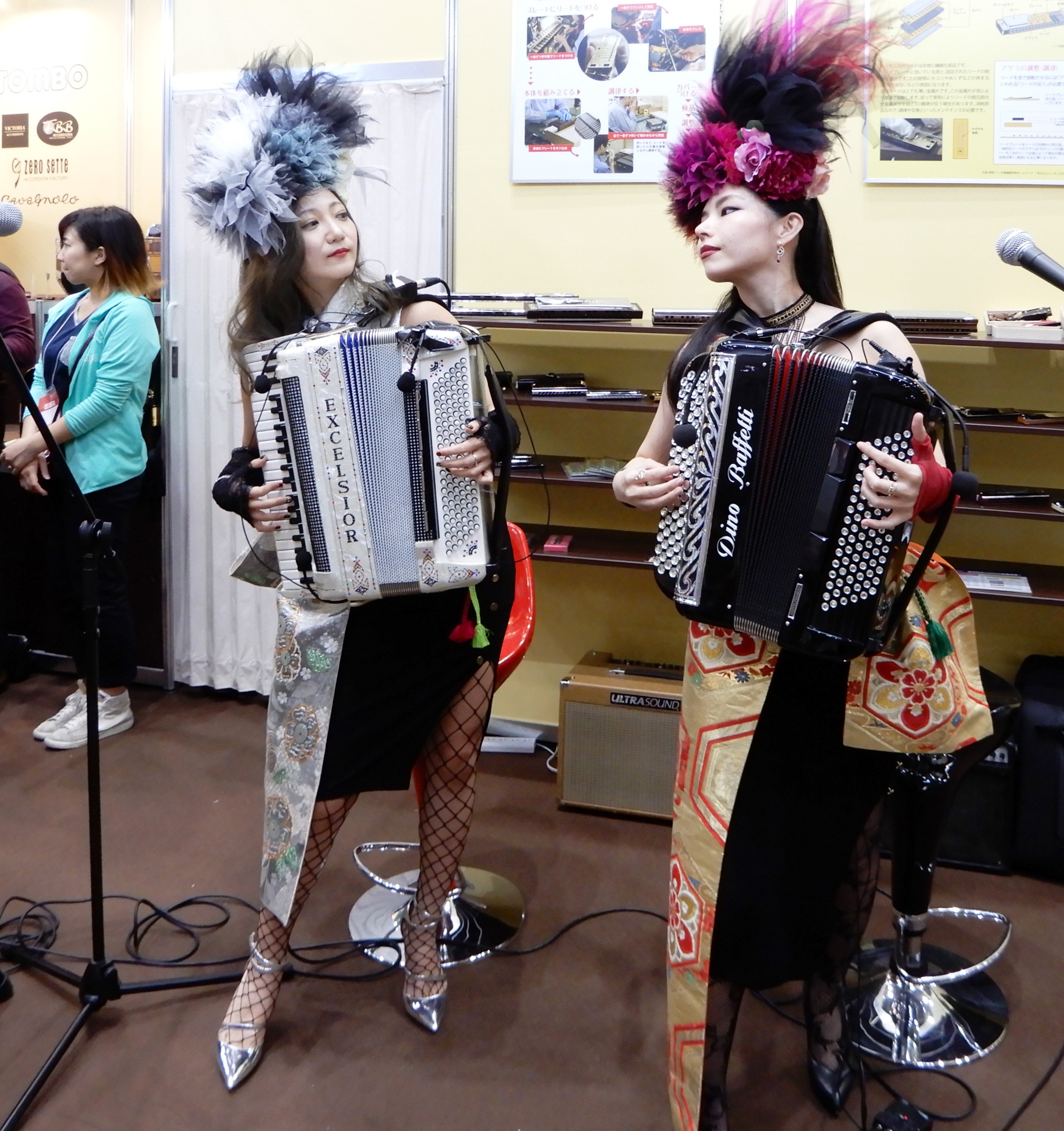 demonstration-performance by MeguRee, the accordion duo of piano accordion player Ms.Ree & chromatic button accordion player Ms.Meme, presented by TANIGUCHI GAKKI (TANIGUCHI's Musical Instruments Shop). This photo was taken at A-04 exhibition booth of Musical Instruments Fair Japan 2018 i.e. Gakki Fair 2018, held in Tokyo Big Sight from 19th to 21nd October.